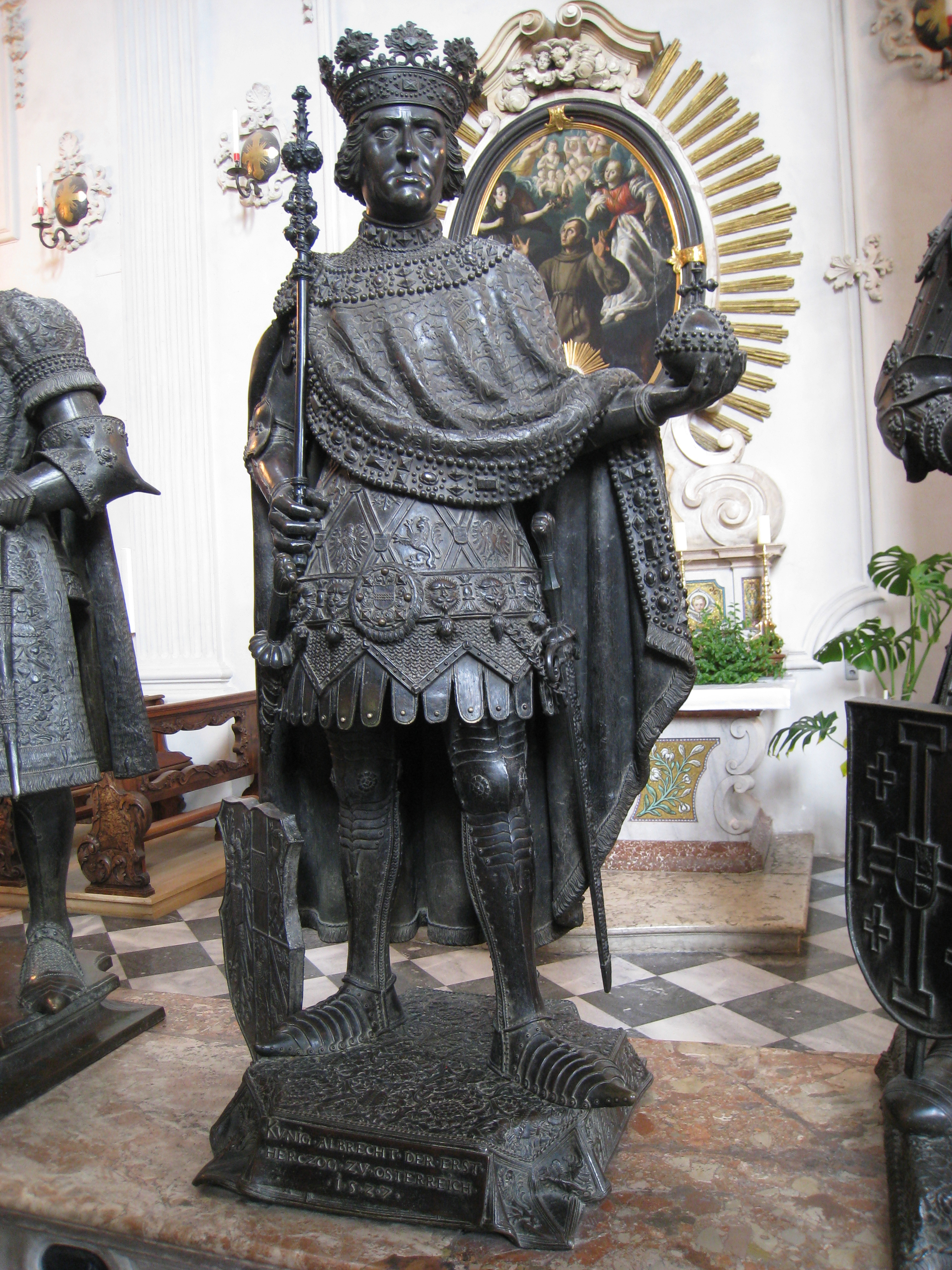 Statue within Hofkirche, Innsbruck, Austria. This statue is old enough so that it is not covered by any copyright.